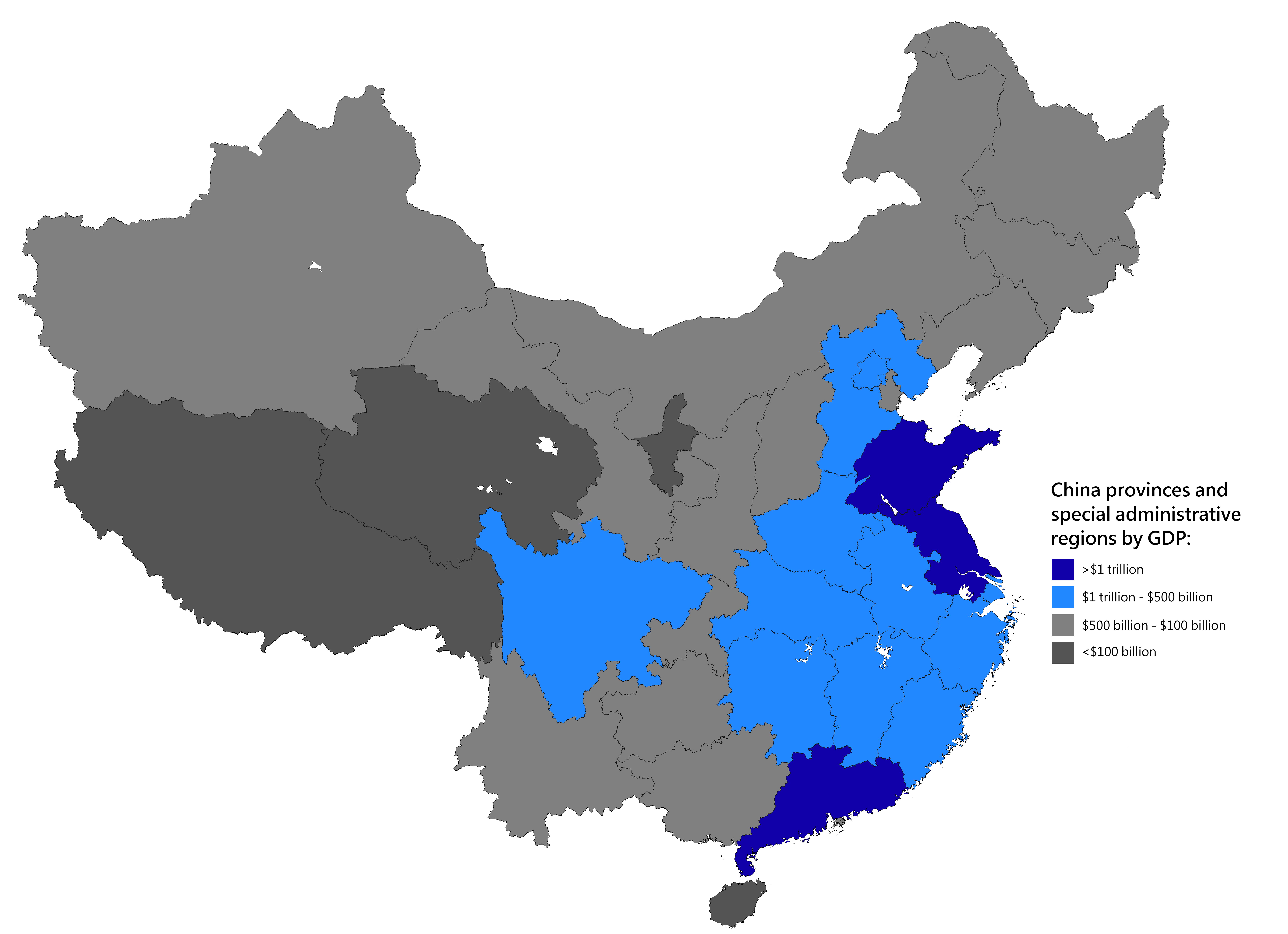 中国各省份GDP总量分布 GDP of Chinese province-level divisions in 2017